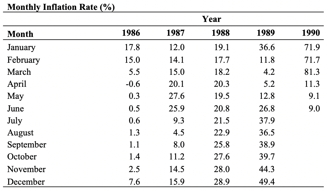 Table of Brazil's monthly inflation rate from January 1986 to June 1990. Data is from FGVData.